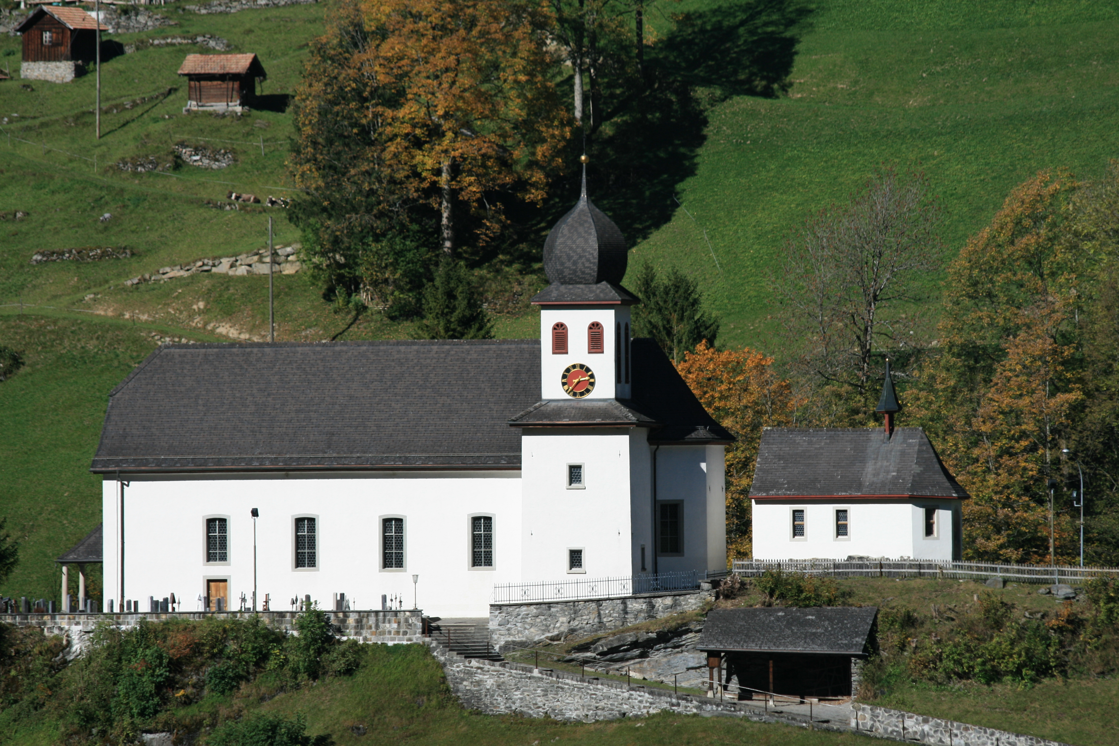 Roman-catholic church of Unterschächen, canton of Uri, Switzerland